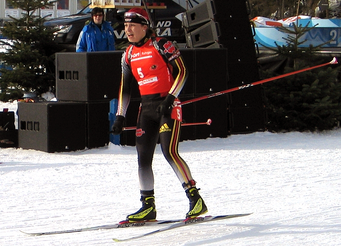 German biathlete Magdalena Neuner at the World Cup in Razen-Antholz, Italy, January 2008 Cropped from File:Neuner-Antholz08-2.jpg